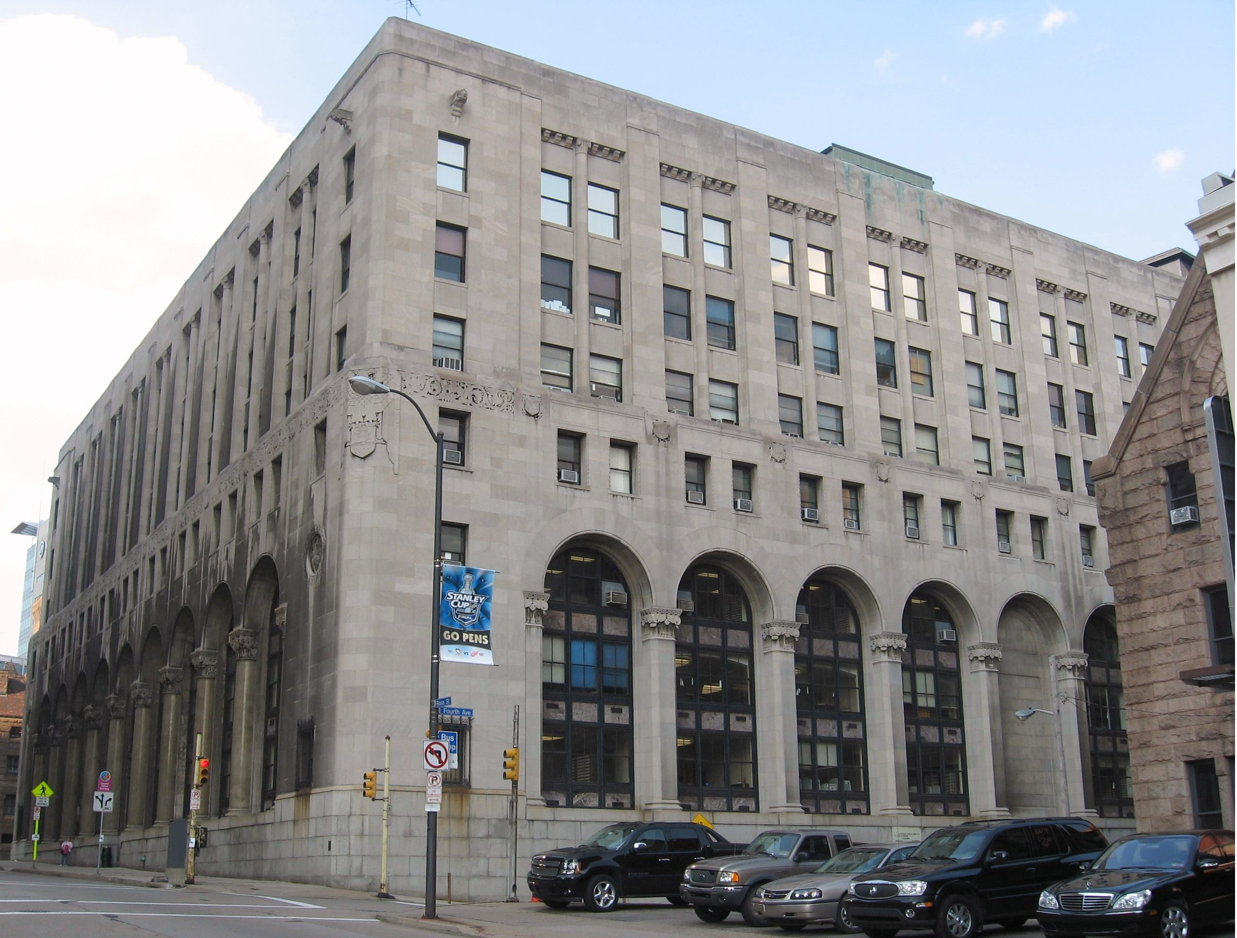 View of the Allegheny County Office Building in Pittsburgh, Pennsylvania40°26′15.39″N 79°59′45.15″W / 40.4376083°N 79.995875°W